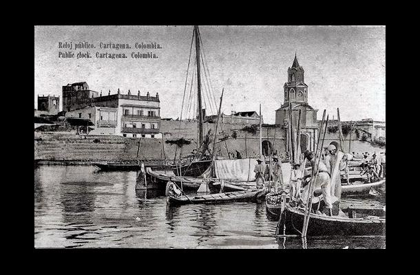 Postal of the Dock of los Pegasos and Torre del Reloj Público, in Cartagena de Indias, Colombia.